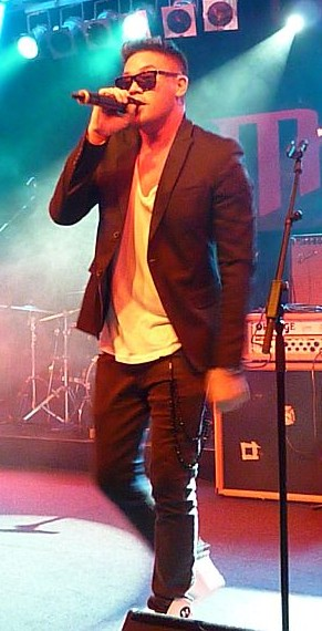 Kay One performing at "Music meets Media" in 2013